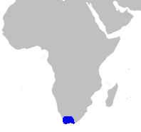 Plant family Lanariaceae distribution map